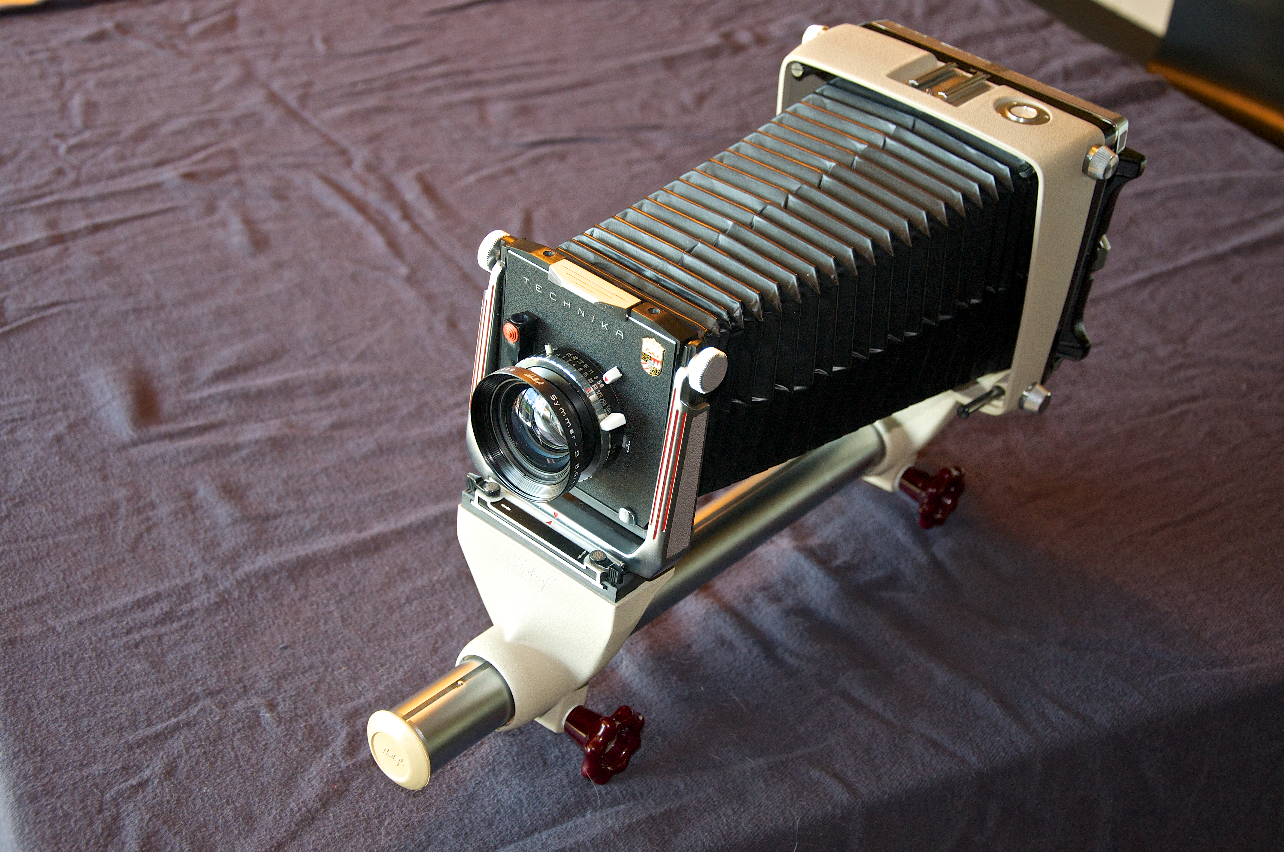 Linhof Technika D.B.P. 4×5 monorail bellows camera